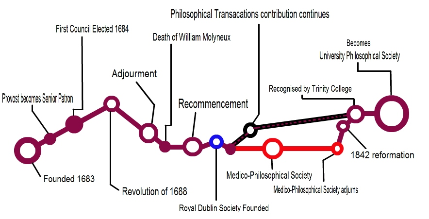 Timeline depicting the "times" of the Dublin Philosophical Society.